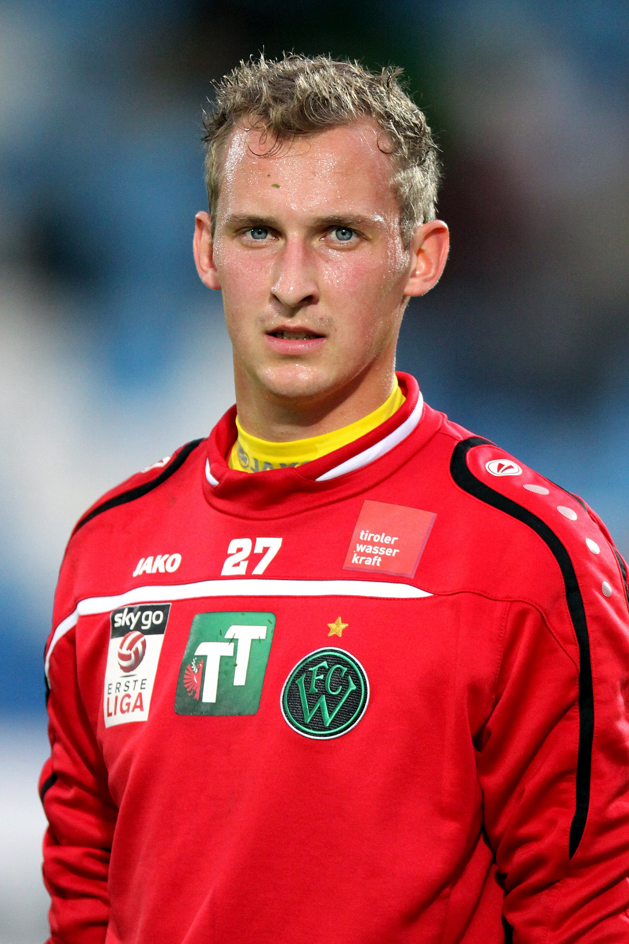 Match of the Erste Liga – SC Wiener Neustadt (blue/white shirts) vs. FC Wacker Innsbruck (green/black shirts) 1–2 (0–1) on 2015-09-15 in the Stadion in Wiener Neustadt – The photo shows goalkeeper Julian Weiskopf (FC Wacker Innsbruck)